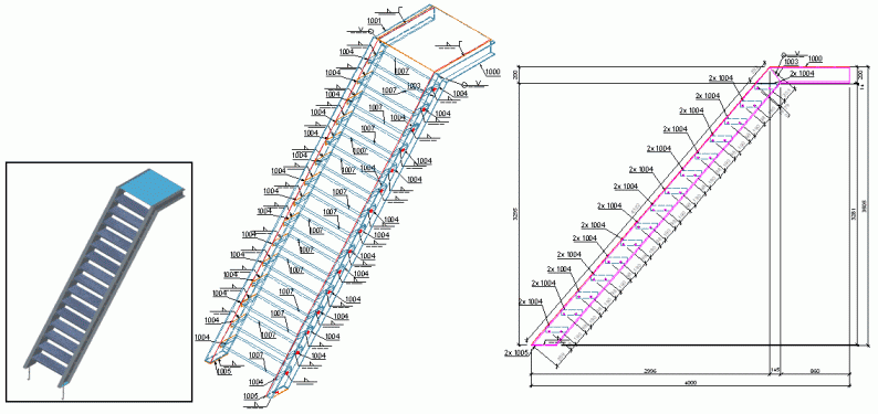 Detail views of a stair created using Advance Steel